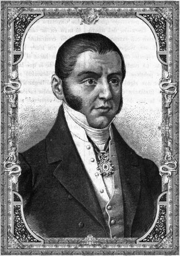 Self-portrait of José Justo Corro, Lithograph (1870-1907).